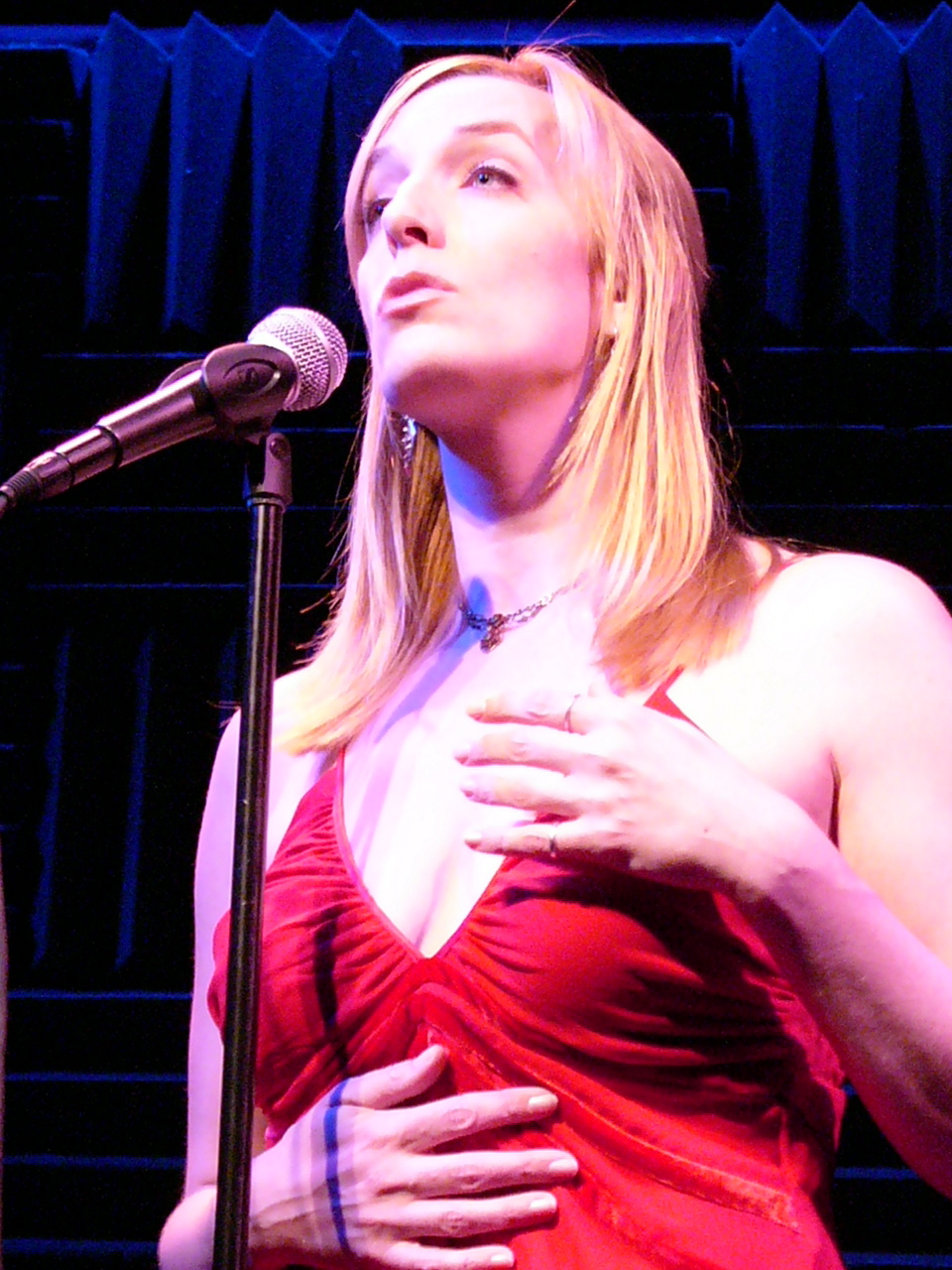 Julia Murney performing at a benefit concert for Hurricane Katrina in New York City on October 23, 2005